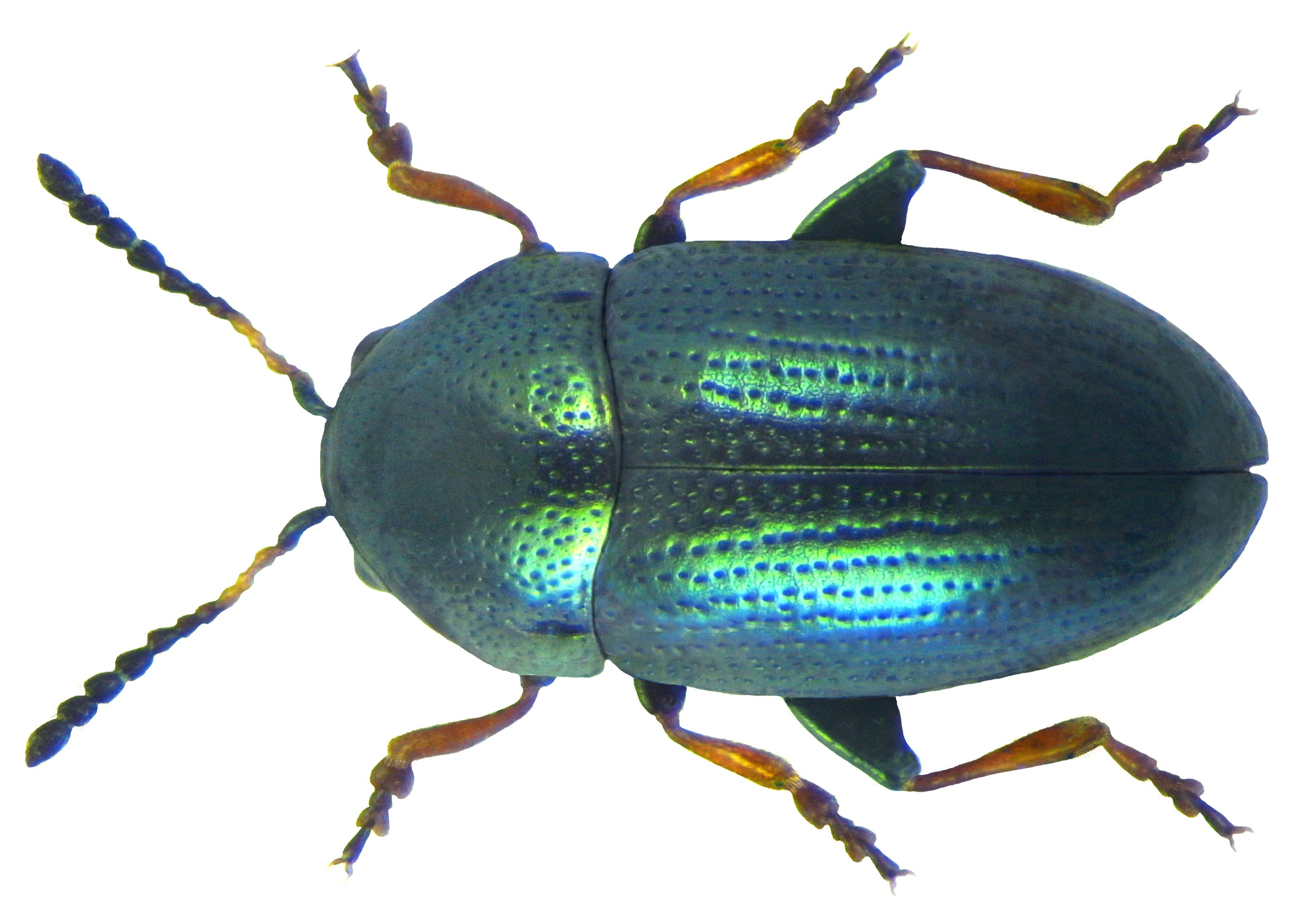 Mantura mathewsi (Stephens, 1832) Familie: Chrysomelidae Groesse: 1,6-2,3 mm Verbreitung: Europa Oekologie: an Helianthemum-Arten Fundort: England P.Harwood, coll. Pres. 1957; Coll. Museum Oxford Photo: U.Schmidt, 2011